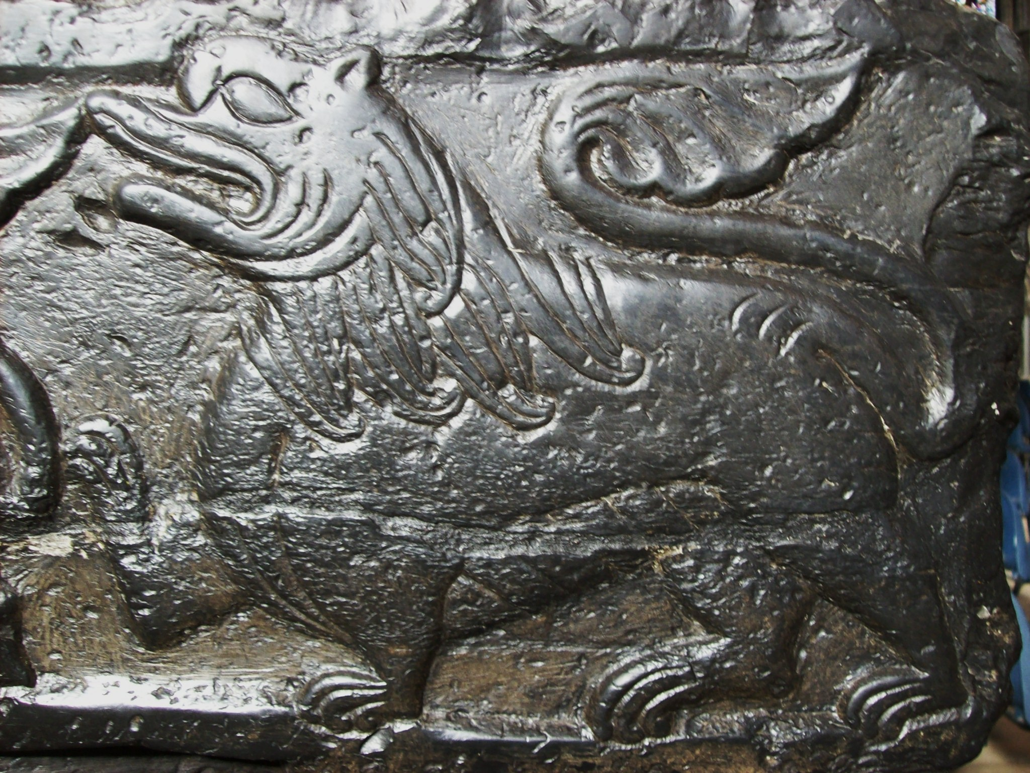 Lincoln Cathedral- carving of lion on font